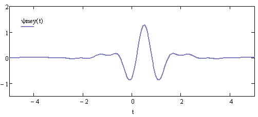 waveform of the Meyer wavelet (numerically computed)